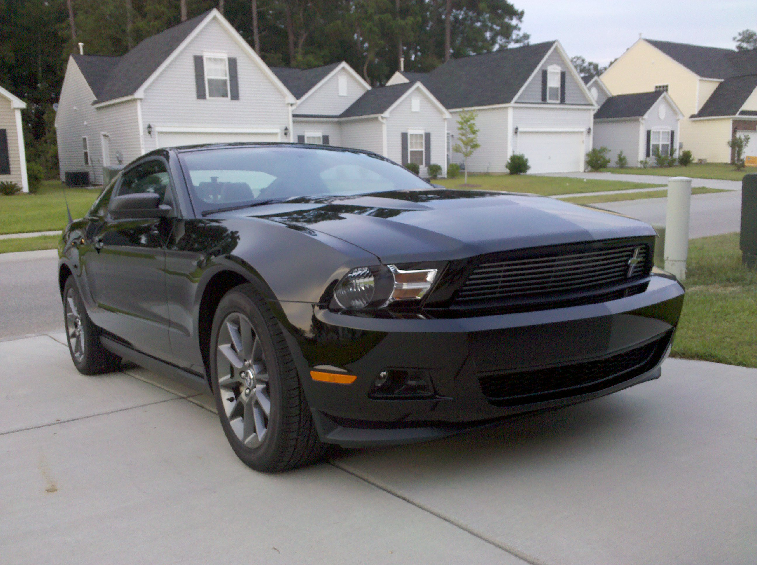 A picture of a black 2011 Ford Mustang v6 Coupe with the optional Mustang Club of America package.